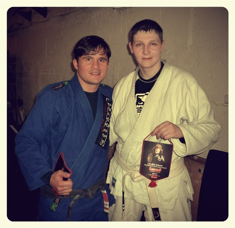 Tony Souza and Elena Zenkevich in Saint-Petersburg 2010